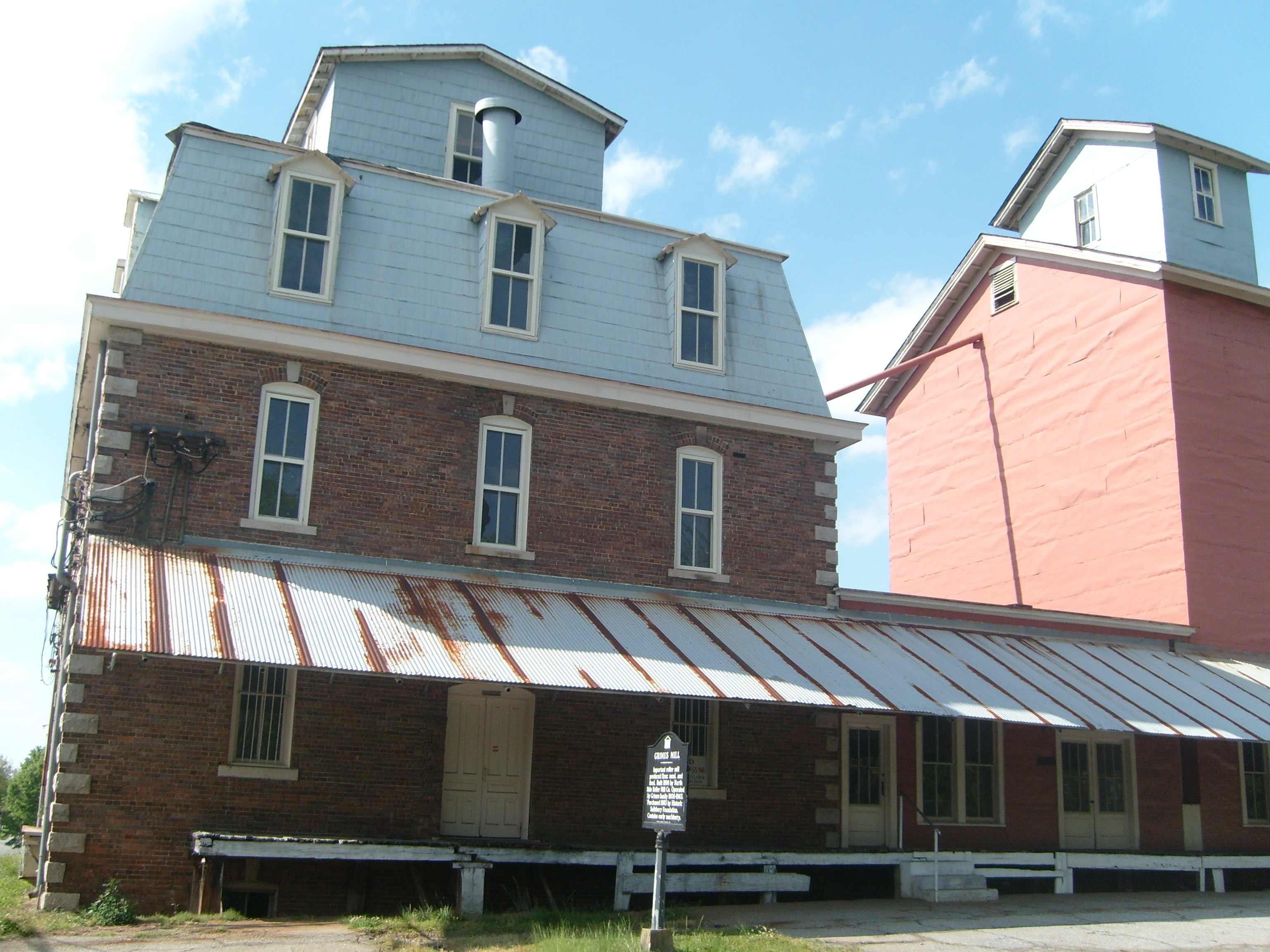 Photo of front entrance of Grimes Mill in Salisbury, North Carolina, USA. On the National Register of Historic Places.